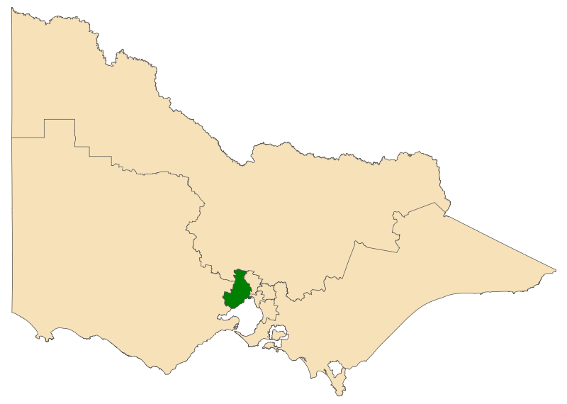 Location of the Victorian Legislative Council Region of Western Metropolitan (dark green).